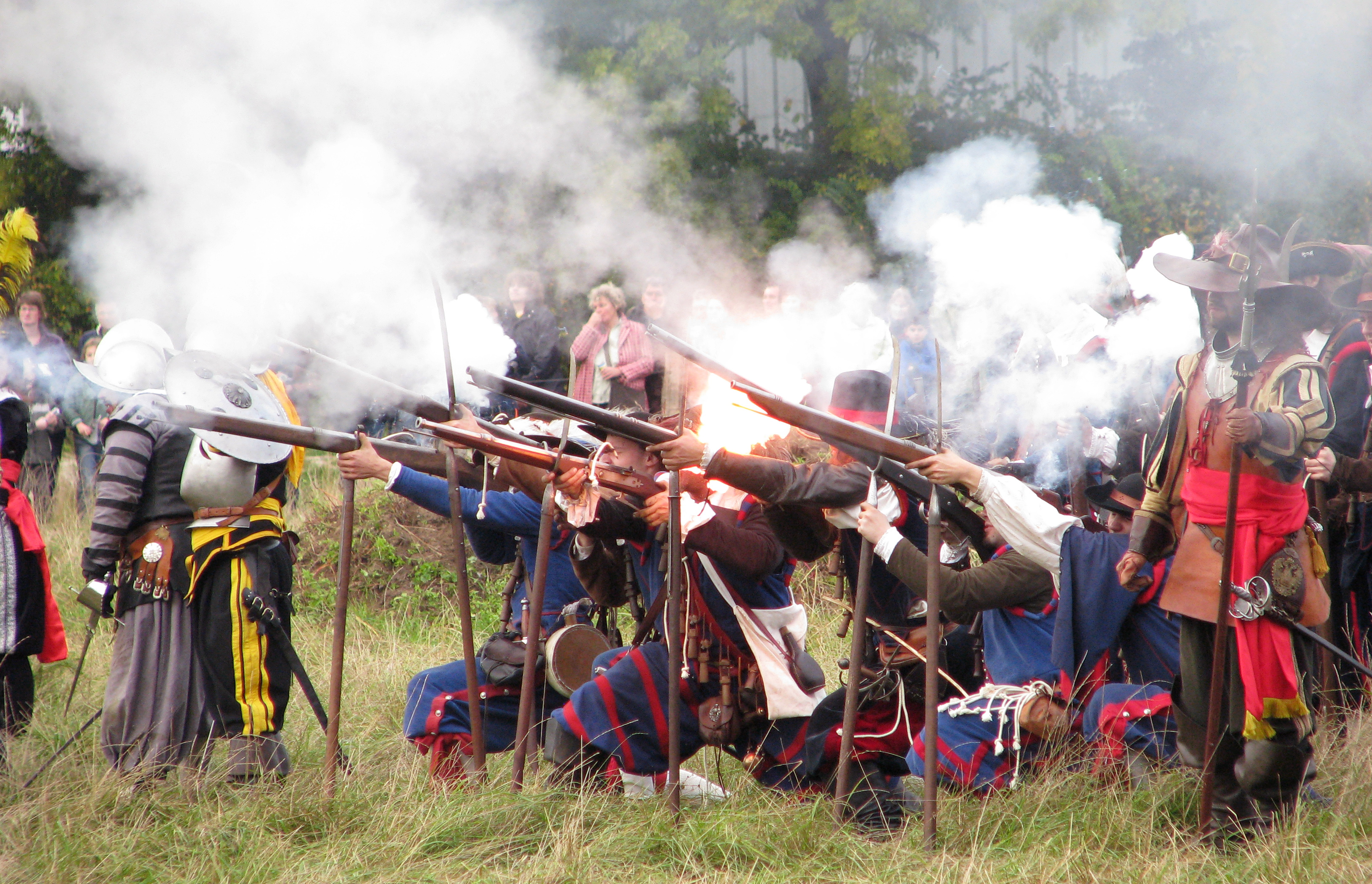 Musketeers fire.